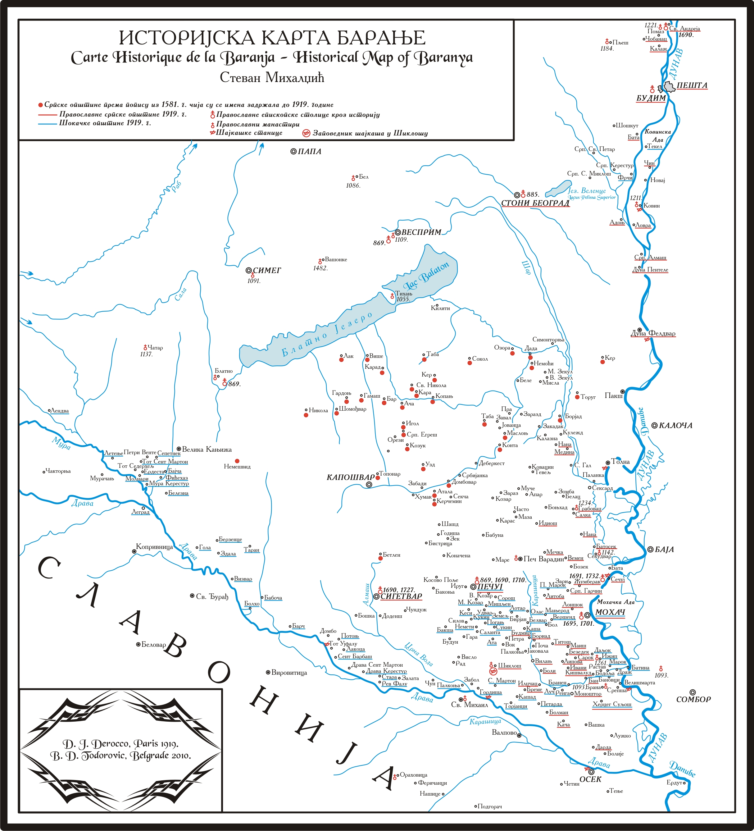 Reconstructed History map of Baranya (Made for Paris Peace Conference 1919, in order to explain the requirements of the Kingdom of SHS to incorporate all of Baranja in its composition. The map was printed in French, English and Serbian language (Cyrillic and Latin)).